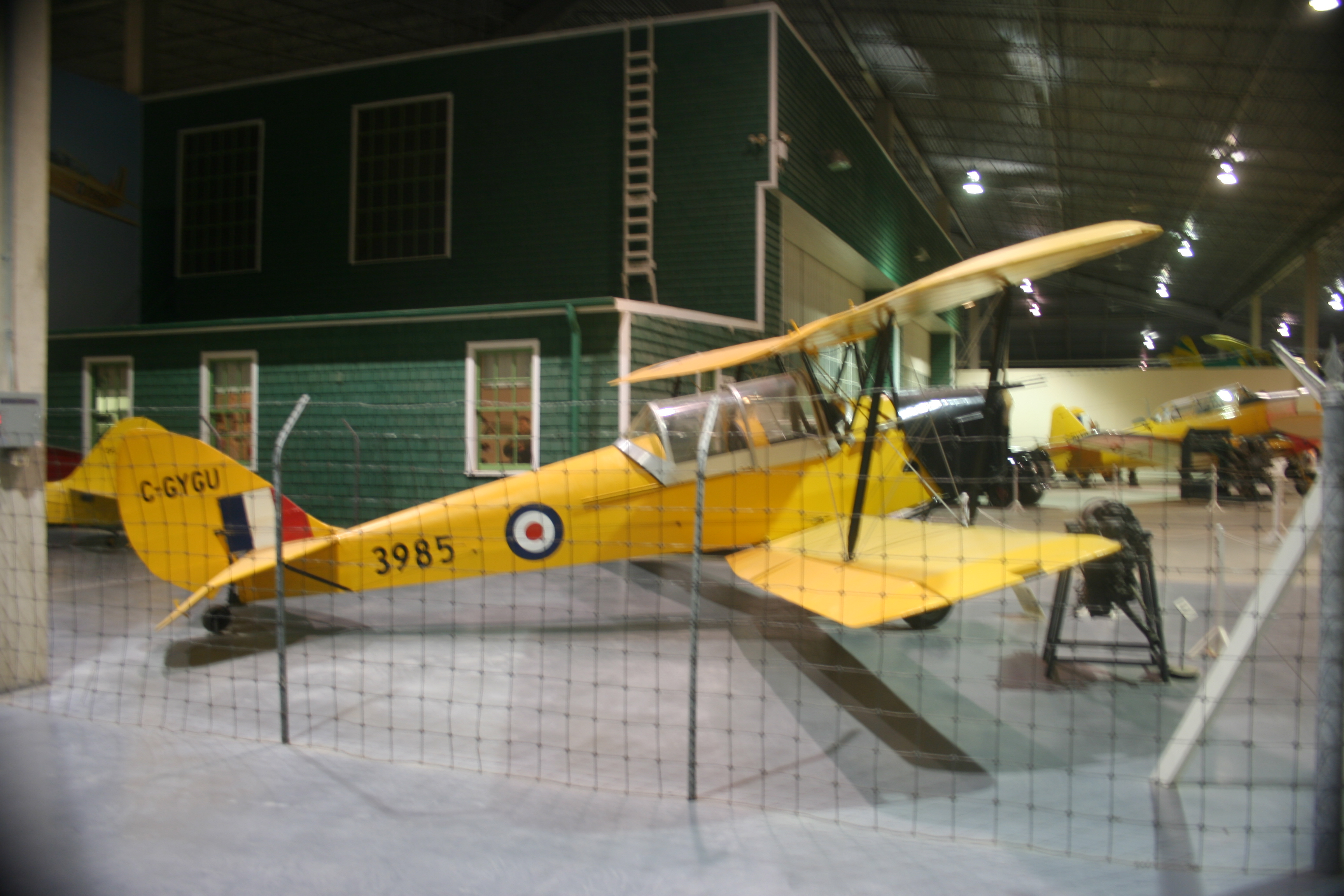 De Havilland Tiger Moth C-GYGU Recreation of a BCATP base at the Western Development Museum, Moosejaw, Saskatchewan, Canada